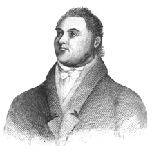 A sketch of "John Adams" Kuakini, royal governor or the island of Hawai'i, circa 1822, from expired copyright book: William Ellis, 1825, A journal of a tour around Hawaii, the largest of the Sandwich Islands, Published by Crocker & Brewster